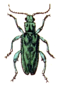 Donacia bicolora, from Calwer's Käferbuch, Table 42, Picture 3. Taxonomy was updated to 2008, using mostly the sites Fauna Europaea and BioLib. Please contact Sarefo if the determination is wrong!